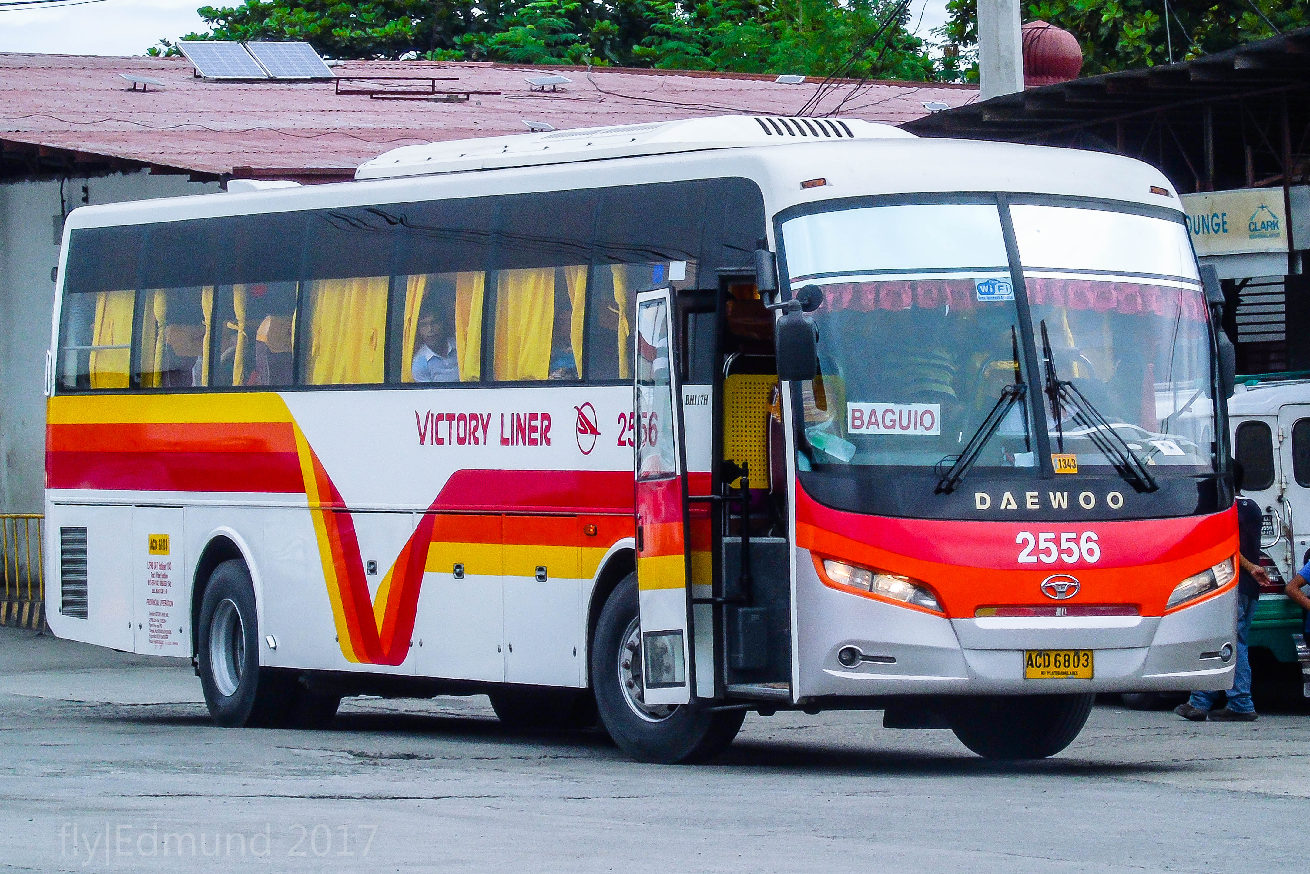 The following bus units started rocking the Philippine roads since the early to mid-2015.